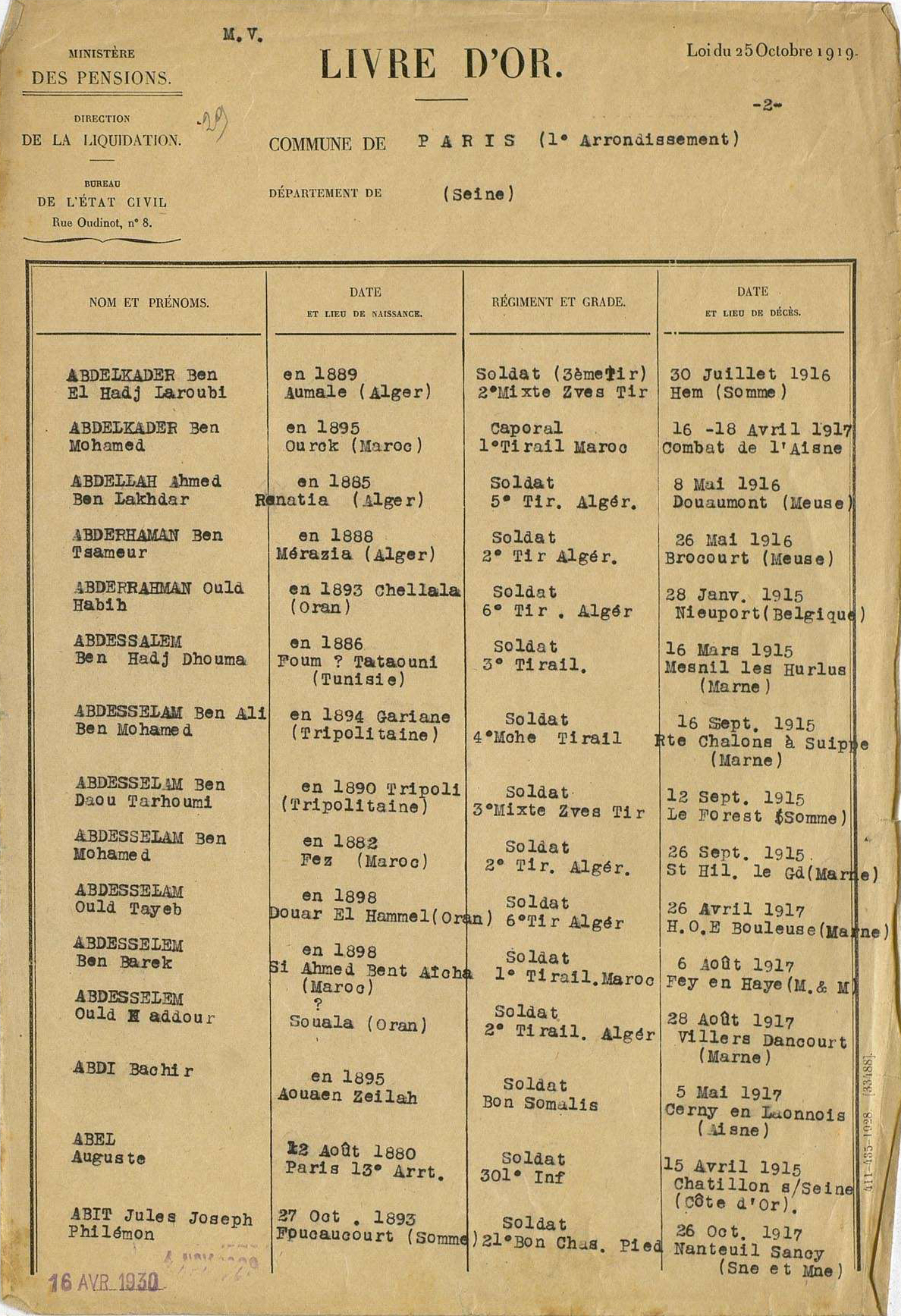 Extract from a book of the dead for France during the 1914-1918 war. This is a page of the register of the 1st arrondissement of Paris. The act of 25 October 1919 instituted the census of the names of the dead in each commune of France in order to pay tribute to them and to constitute the Golden Book which would have been deposited in the Pantheon.